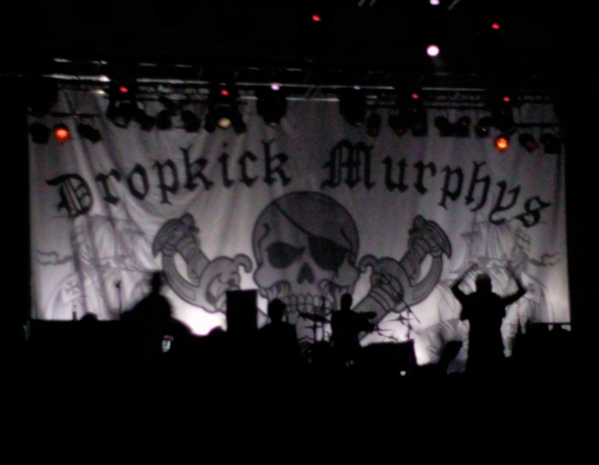 Backdrop at a Dropkick Murphys gig, 16 April 2010